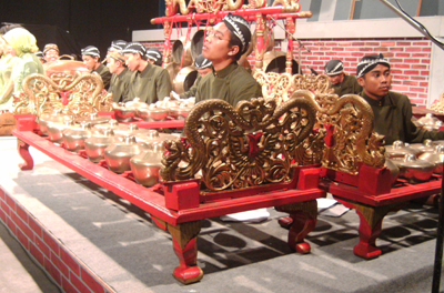 Bonang